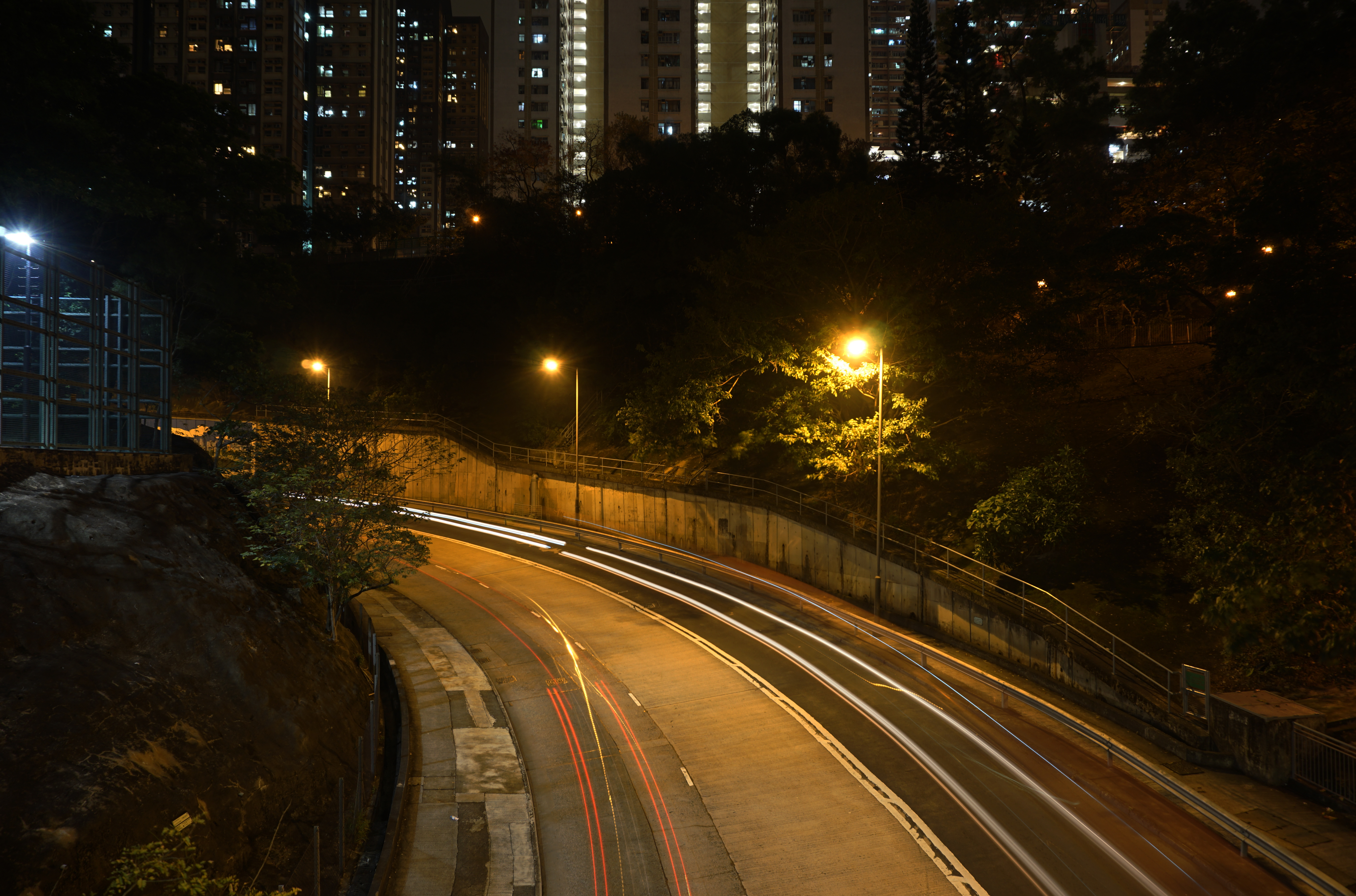 Chun Wah Road in Kowloon Bay, Hong Kong.